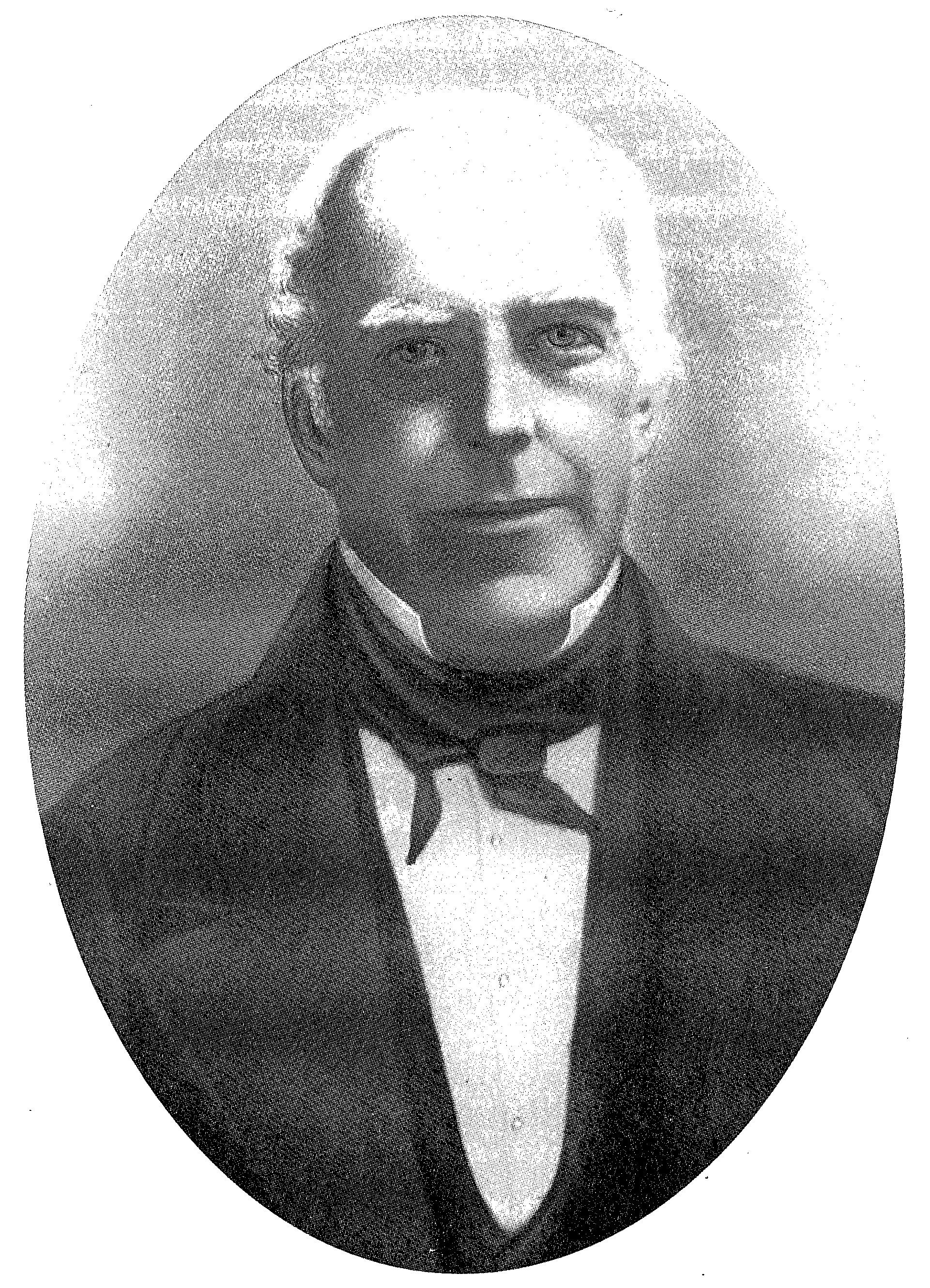 This is a photograph of William Henry Mackie (1799–1860), lawyer and public servant in colonial Western Australia, and a member of Western Australia's first Legislative Council. The original photograph is held by the Battye Library, catalogue number 816B/H7604.